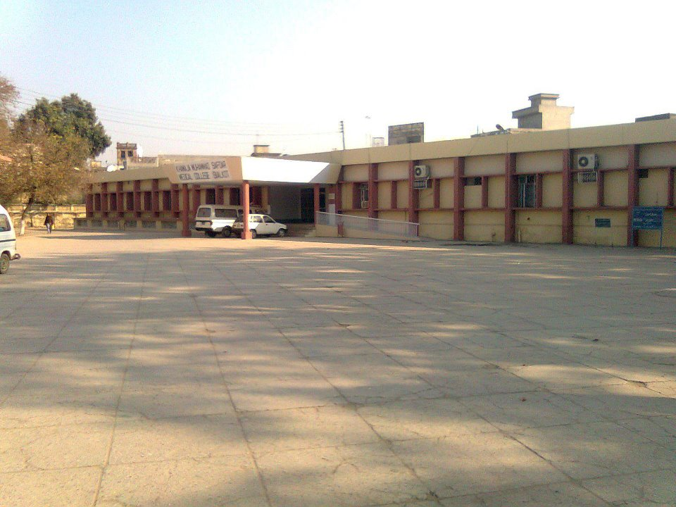 Present College Building